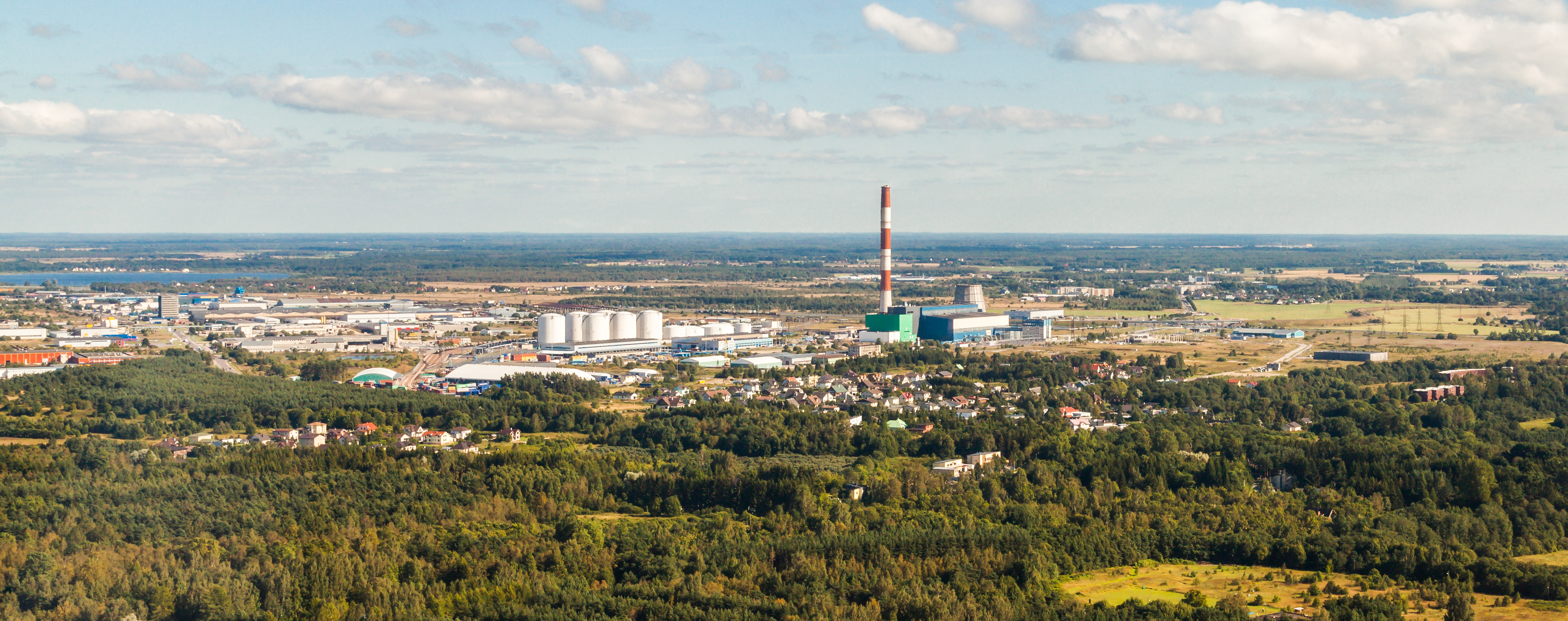 Power plant in Iru, Estonia